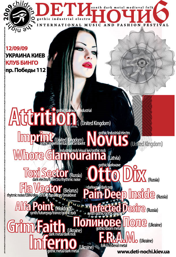 Festival "Deti Nochi: Chorna Rada", the ticket